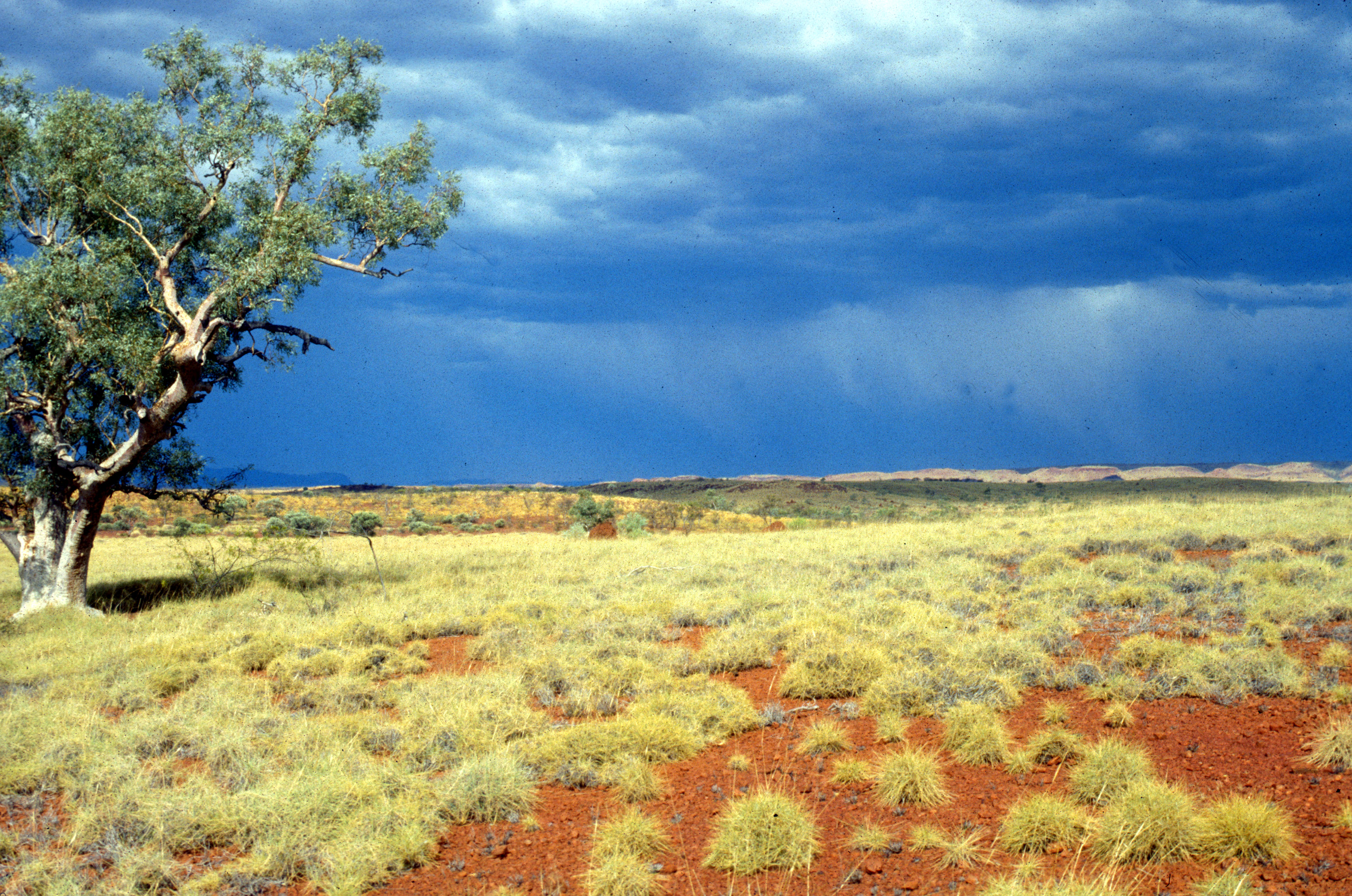 Spinifex plain near Paraburdoo, Western Australia. Photo credit: S. Dowling